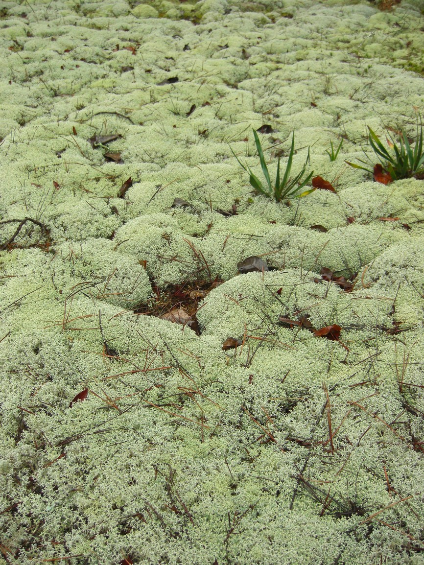 various species, dominated by Cladina rangiferina and Cladina subtenuis 20100311.4 US, GA, near Augusta, Heggie's Rock